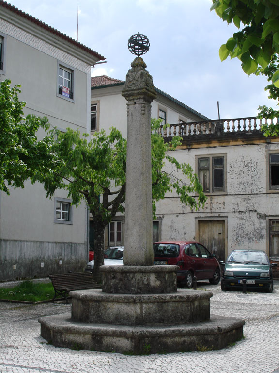 Pillory for torturing